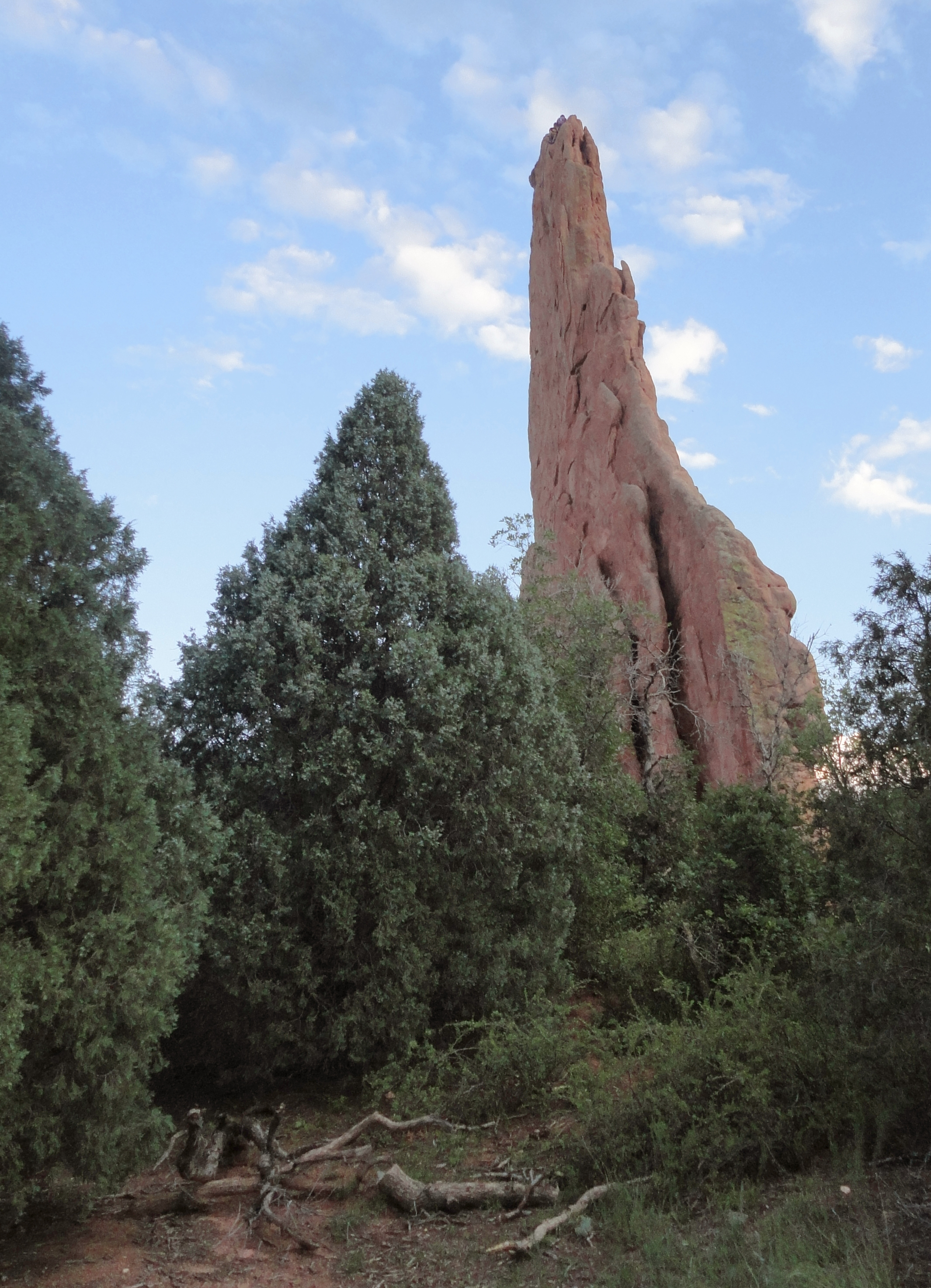 Juniperus scopulorum. Garden of the Gods, Colorado Springs, Colorado, USA.